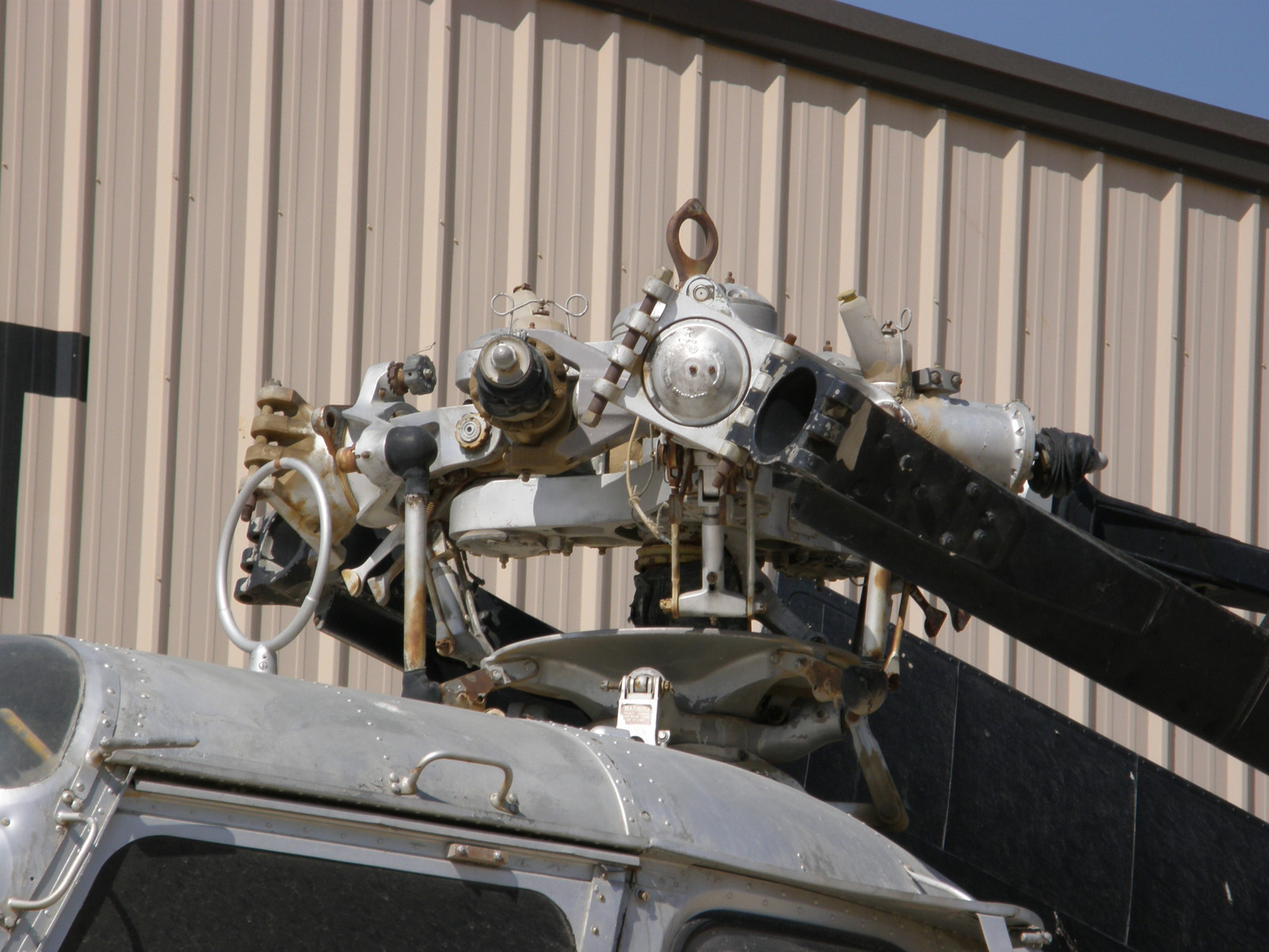 Sikorsky H-19 at the Milestones of Flight Museum, Lancaster California